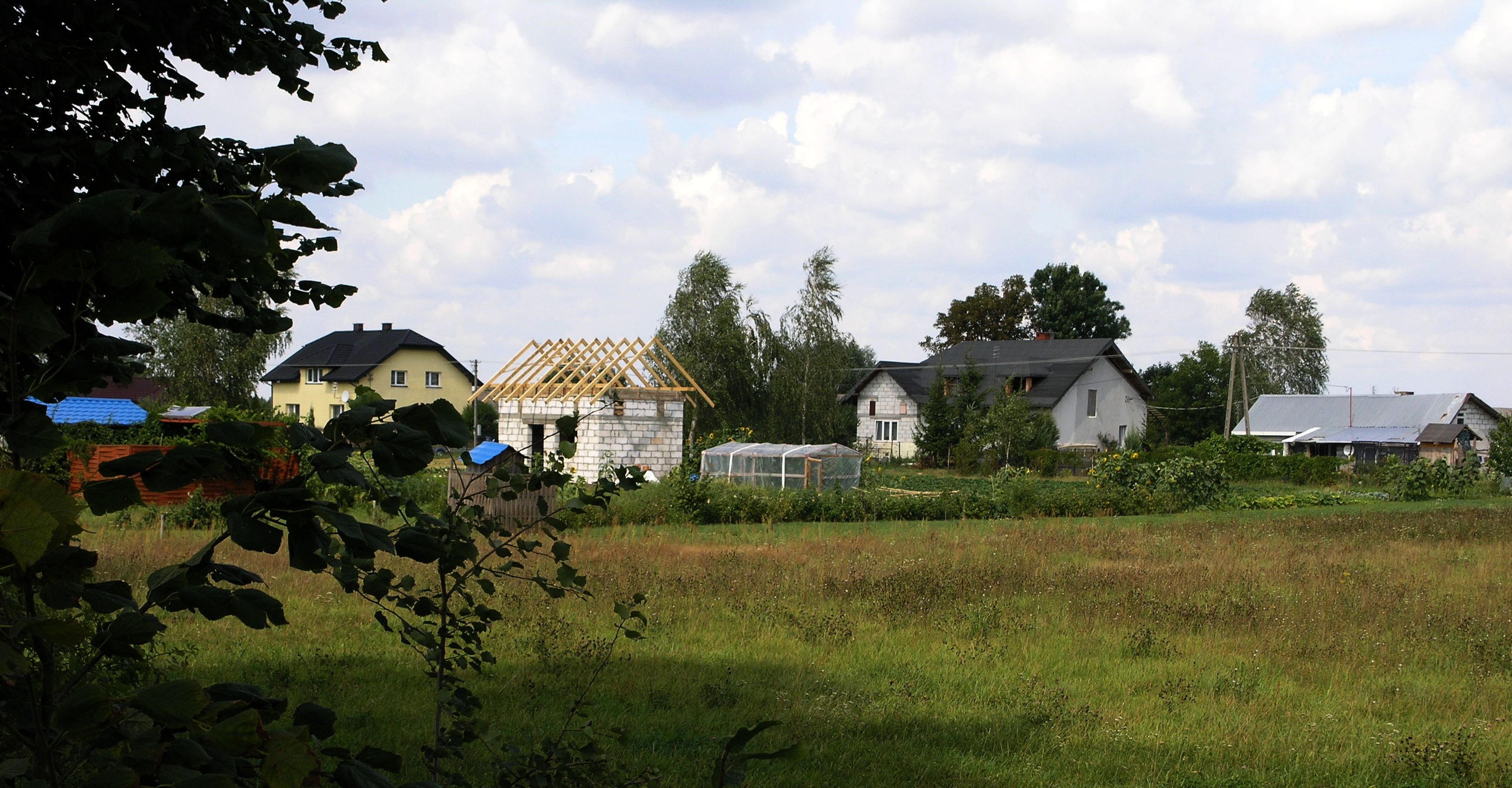 Dobra Wola, powiat nowodworski, Poland